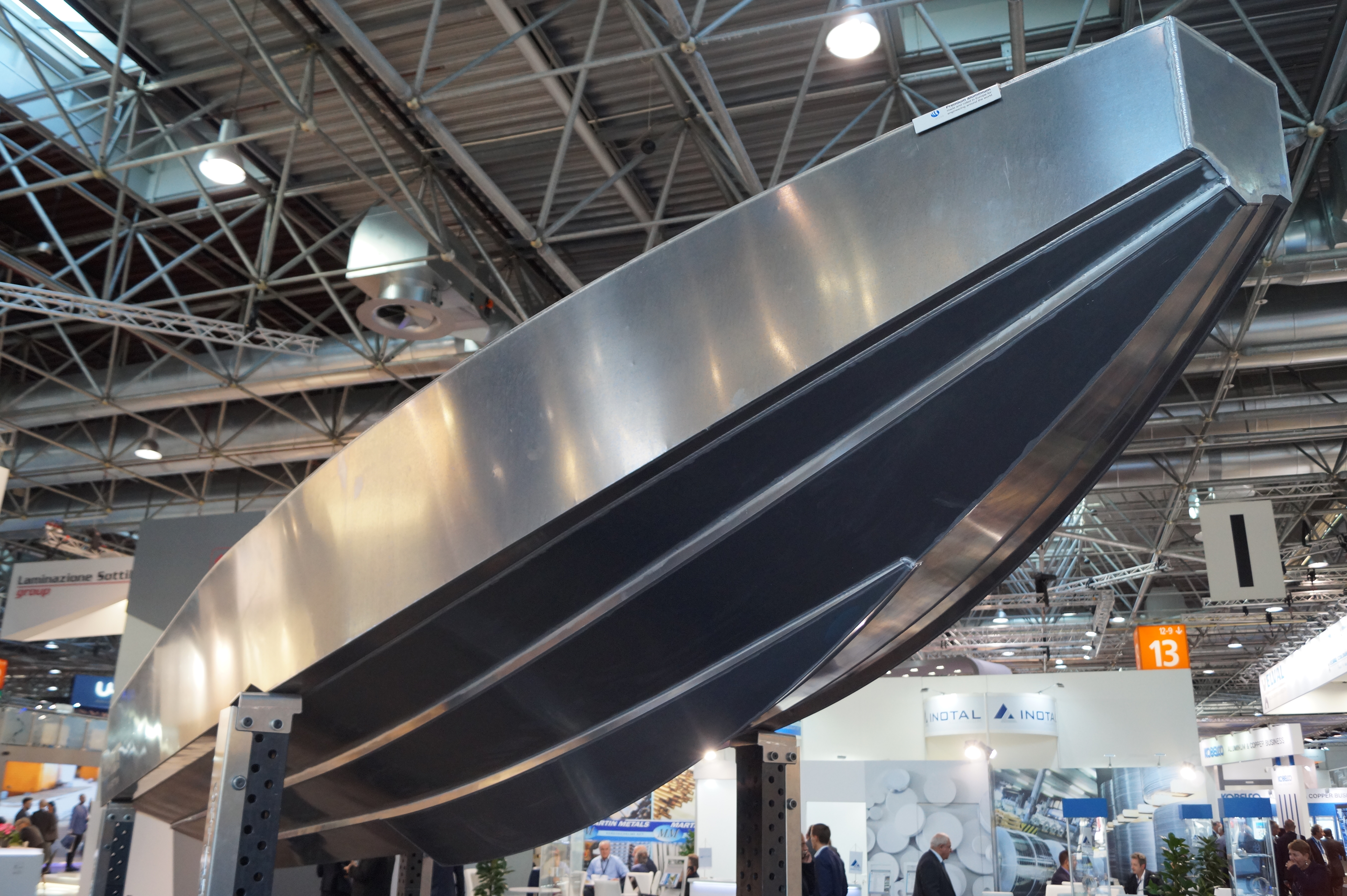 Aluminium 2018 World Trade Fair and Conference